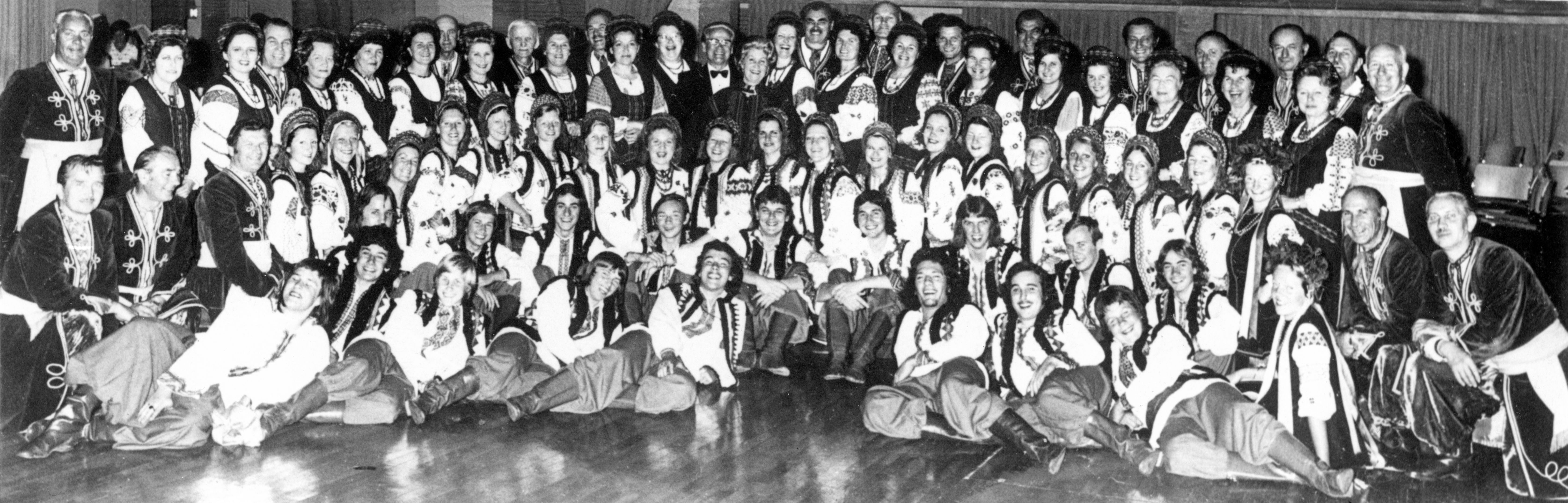 Ukrainian choir "Boyan" — director Vasyl Matіash (top row — center), with the "Ukrainian Folk Ballet" — musical director and choreographer — Natalia Tyravska (top row — center). Photo taken during the "Shell" National Folkloric Festival in 1974, Sydney, Australia.